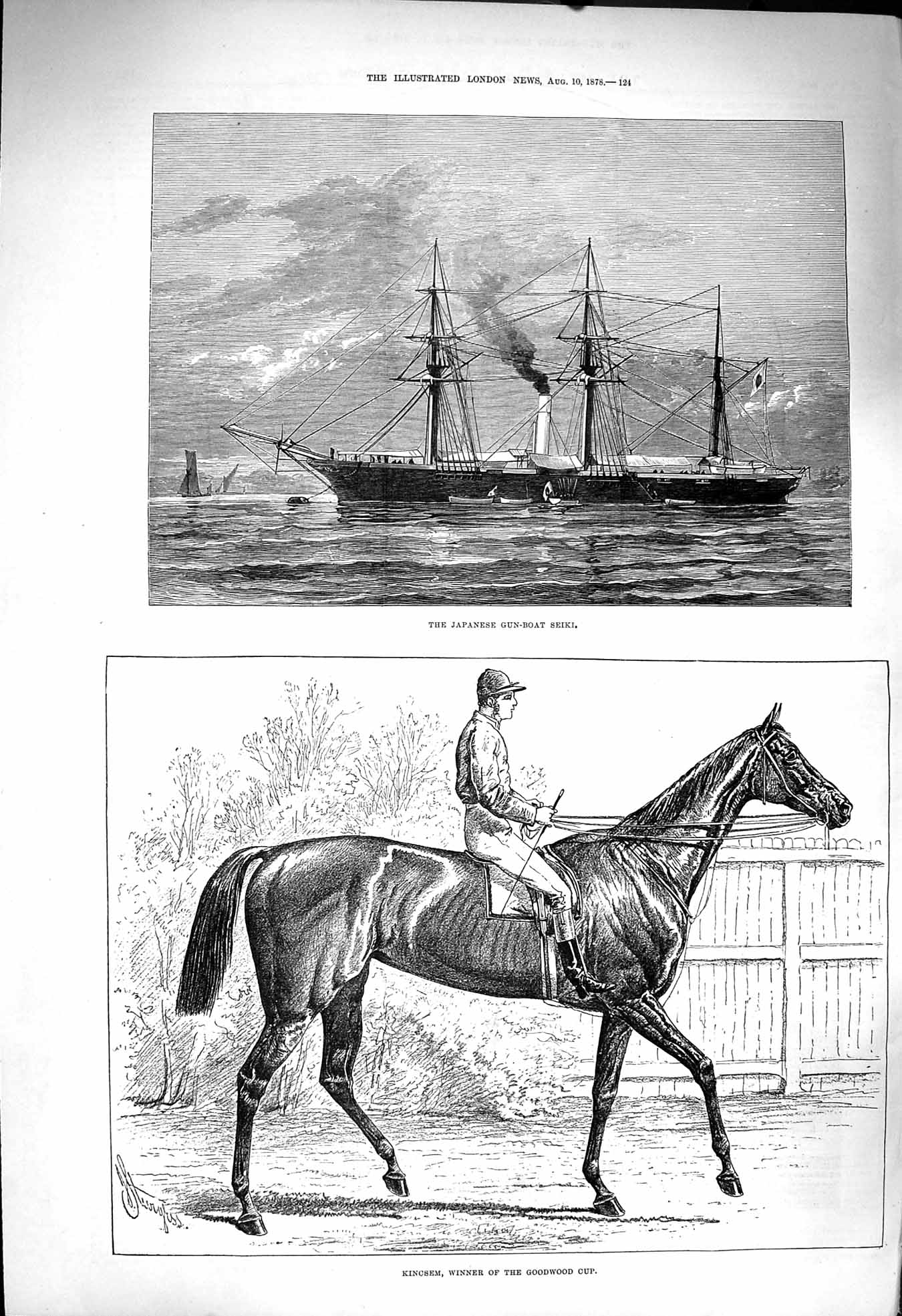 KINCSEM’s victory in the 1878 Goodwood Cup is reported in the Illustrated London News on August 10, 1878. The drawing depicts a much livelier mare than reports of her appearance as she went down to the start suggest.